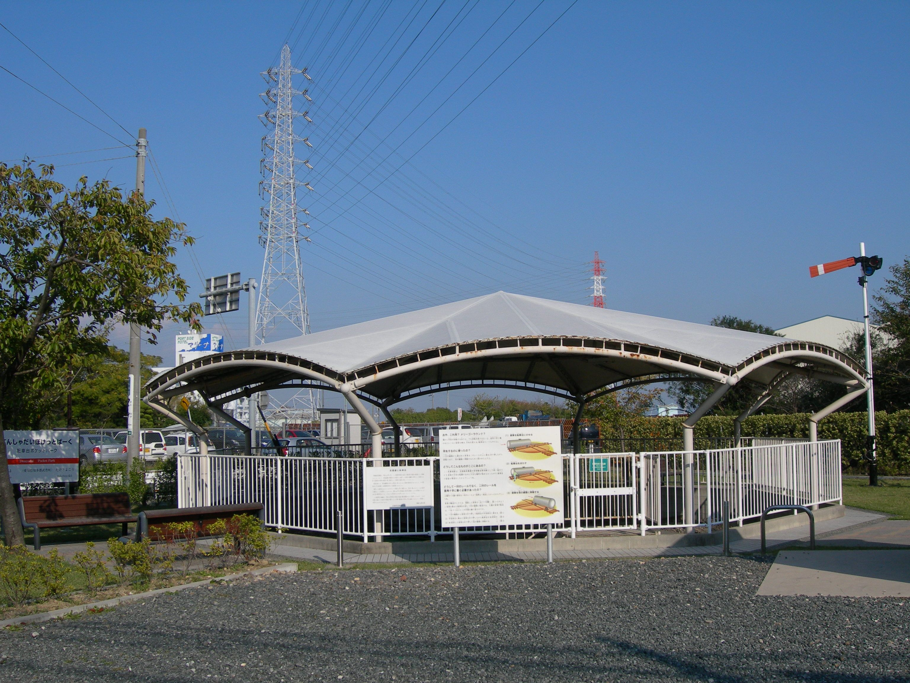 Site of former Takeyotominato Station